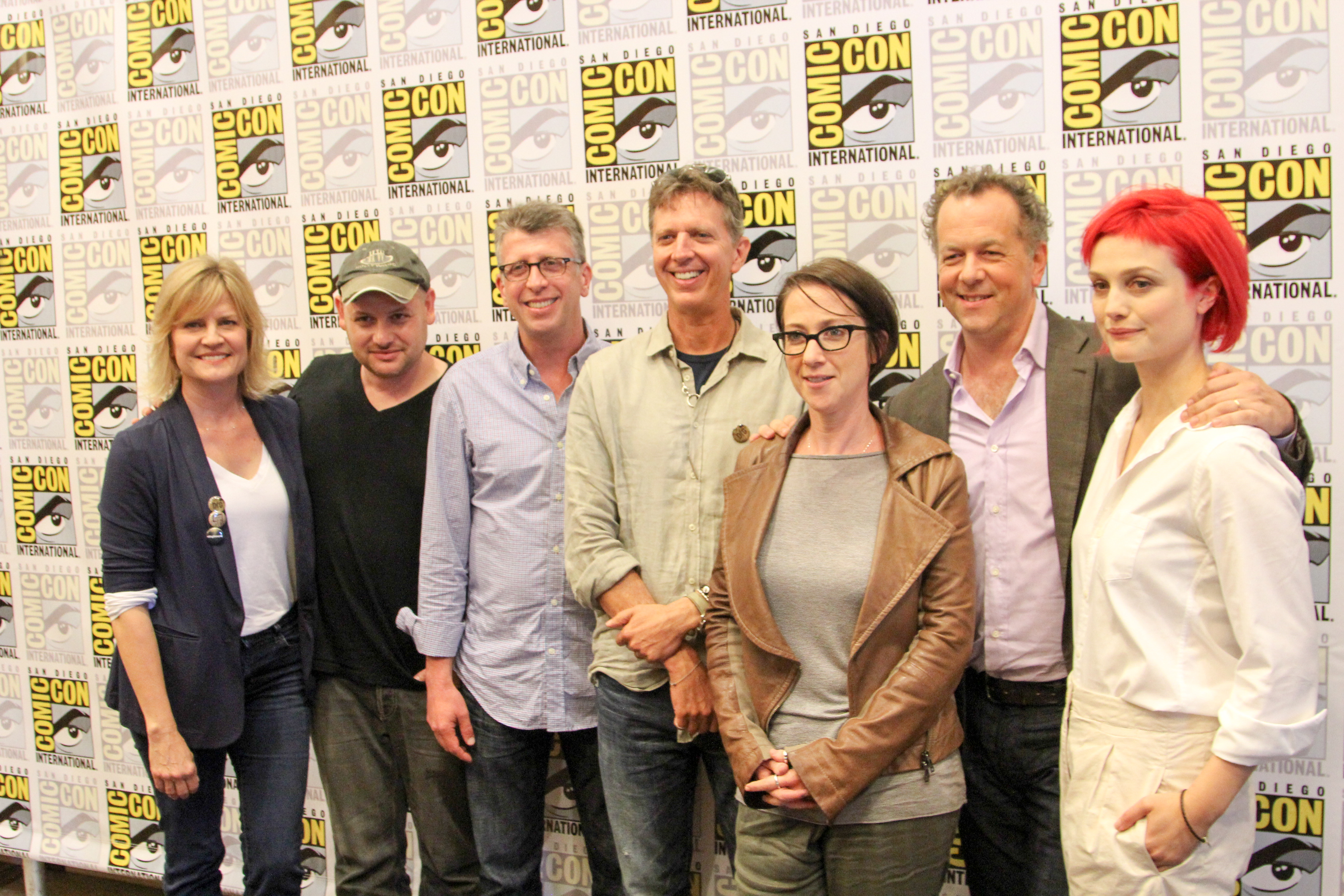 "Dig", 2014 US television show, panel - writer Carol Barbee, co-creator Gideon Raff, producer Richard Rothstein, co-creator Tim Kring, director S.J. Clarkson, David Costabile, and Alison Sudol - at San Diego Comic Con 2014.